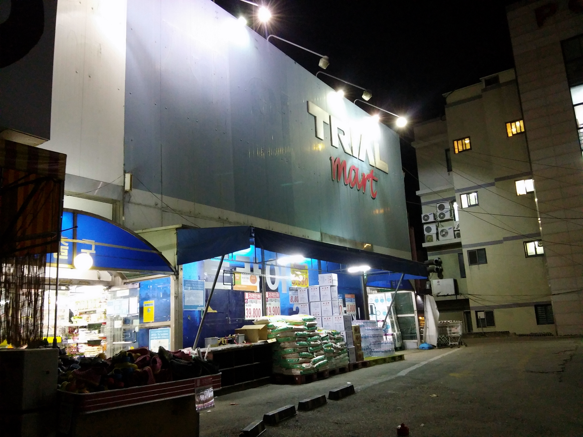 This is a picture of the outside of TRIAL mart in Gimhae, South Korea. TRIAL mart is Japanese supermarket chain based in Fukuoka, Japan. In 2005, The company opened its first overseas store in Haman, South Korea.